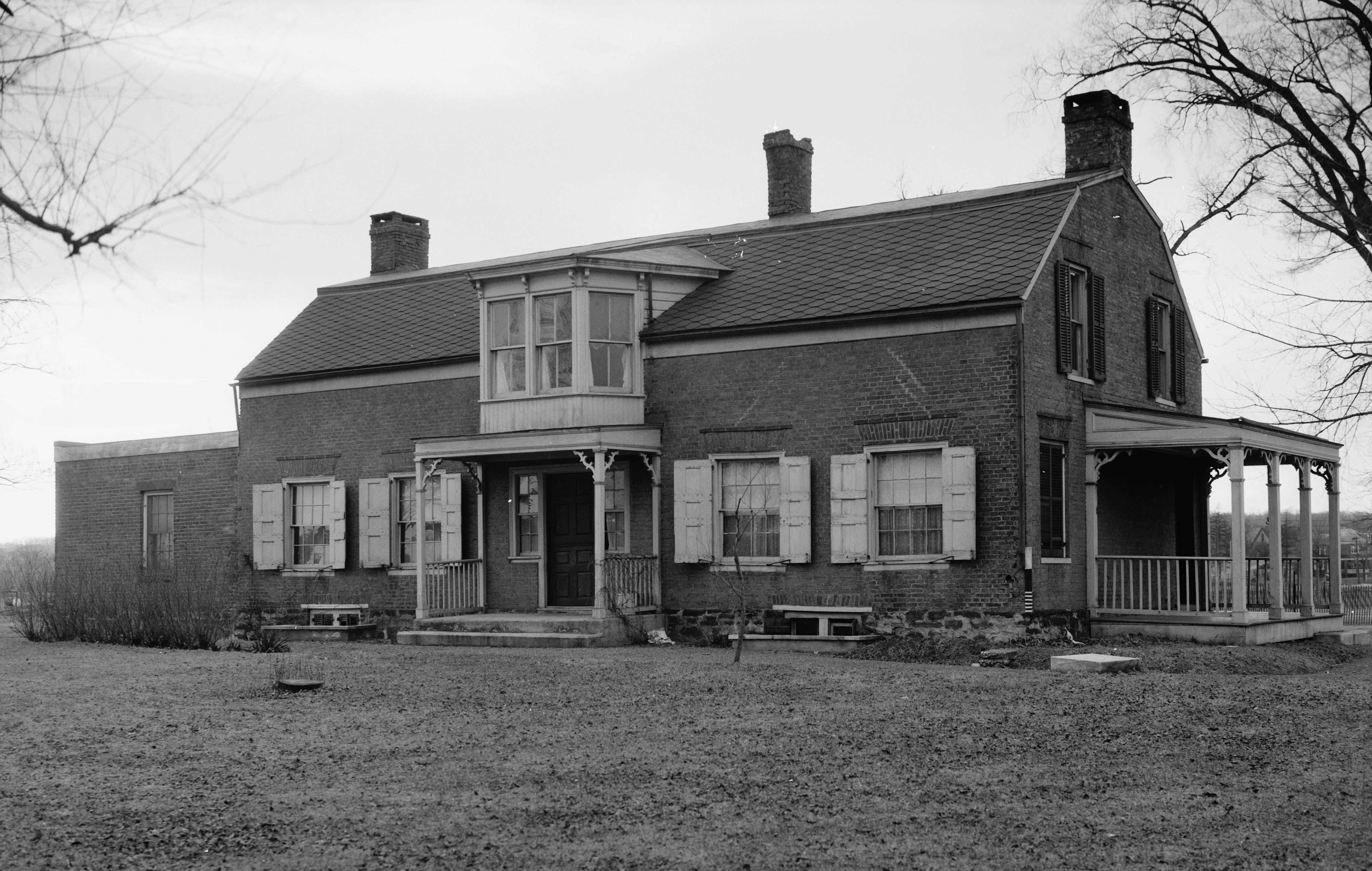 General Philip Schuyler House, Troy Road Vicinity, Colonie Township, Albany County, New York.